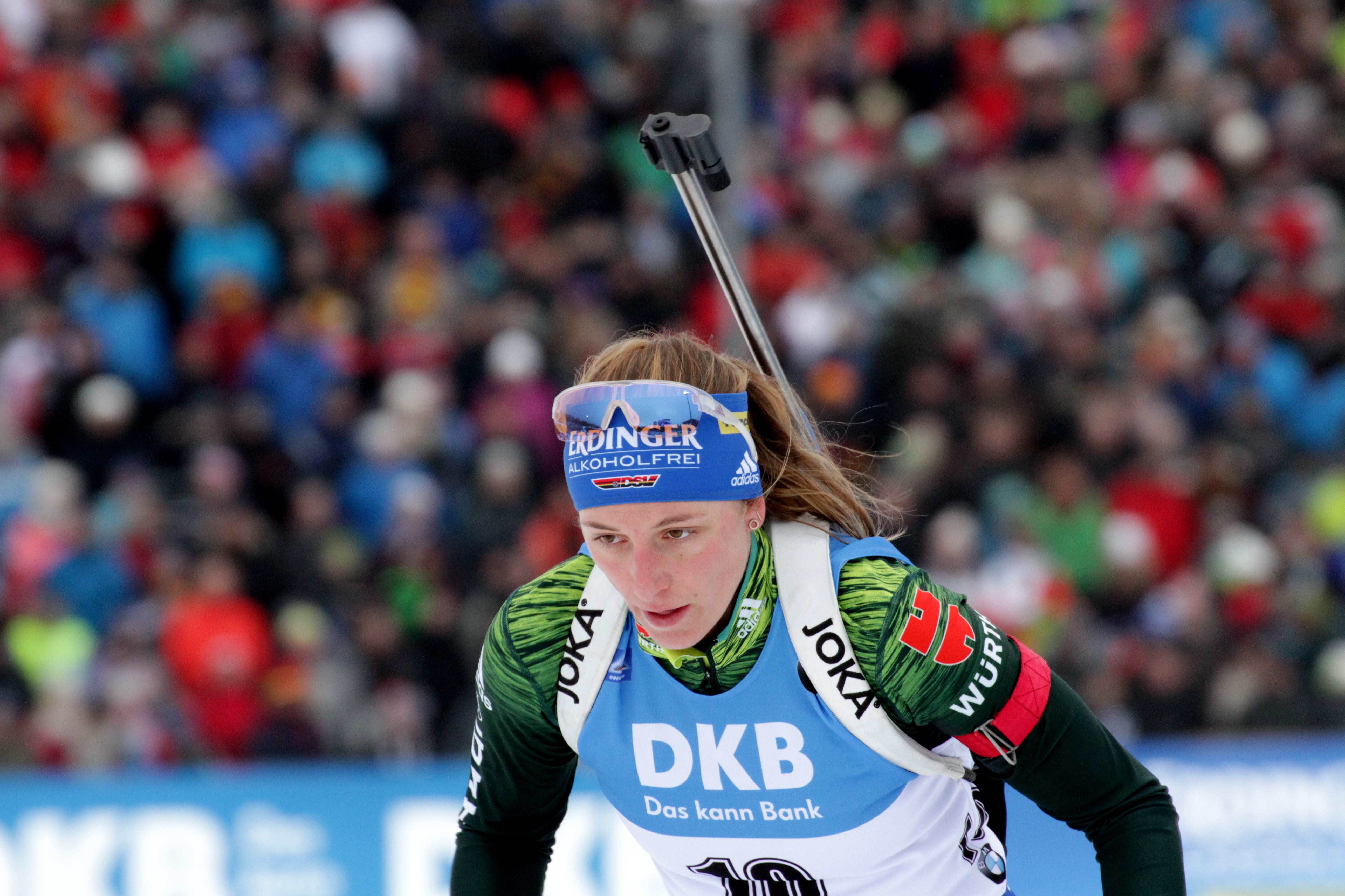 2018 Oberhof Biathlon World Cup - Sprint Women